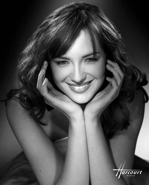 Louise Bourgoin photographed by Studio Harcourt Paris